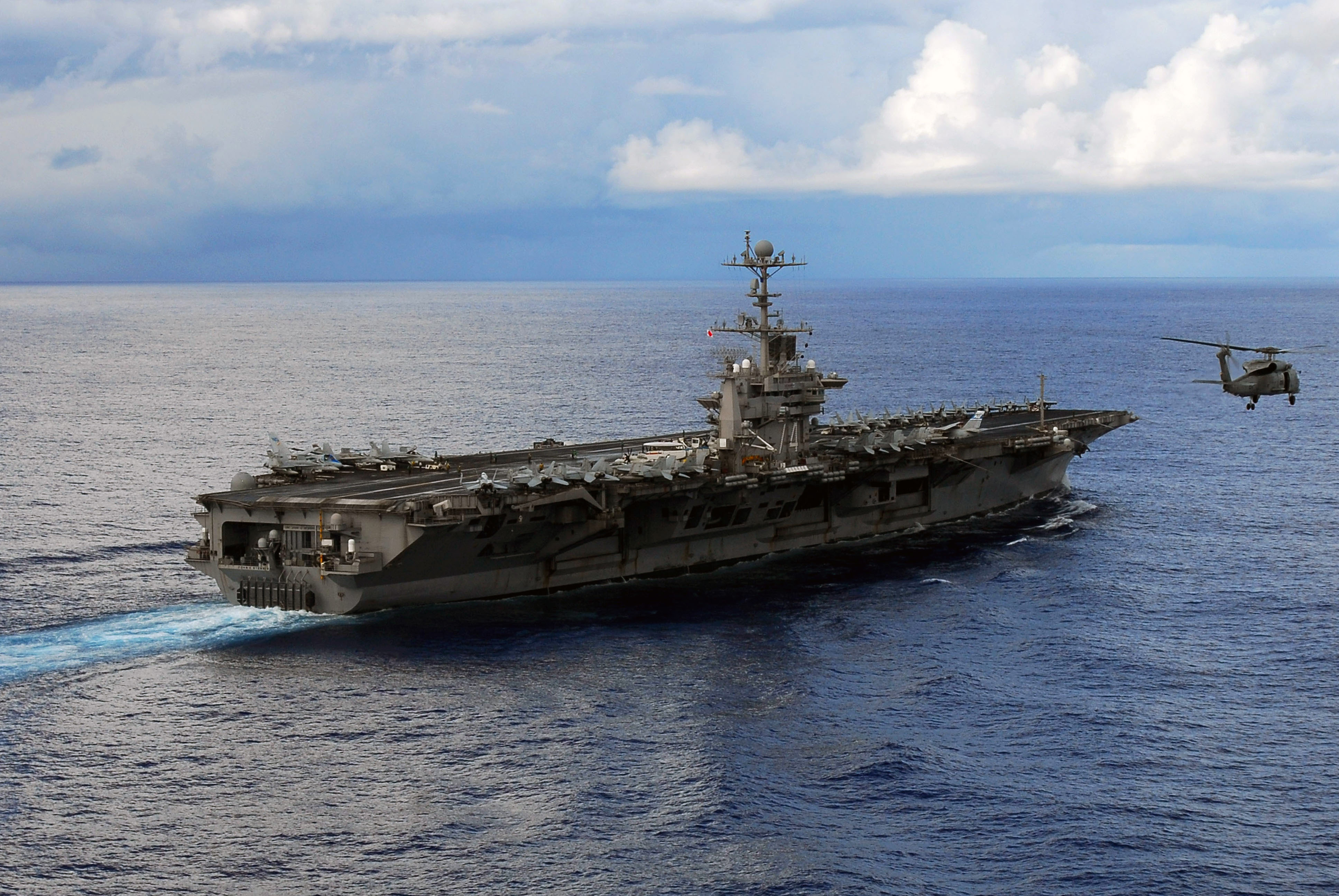 PACIFIC OCEAN (Aug. 10, 2007) - An SH-60F Seahawk assigned to the "Eightballers" of Helicopter Anti-Submarine Squadron (HS) 8, attached to Carrier Air Wing (CVW) 9, hovers near the Nimitz-class aircraft carrier USS John C. Stennis (CVN 74) acting as plane guard during exercise Valiant Shield 2007. A plane guard is in the air during flight operations to respond in the event of a man overboard or aircraft incident. The John C. Stennis, Kitty Hawk and Nimitz Carrier Strike Groups are participating in Valiant Shield, the largest joint exercise in recent history. Held in the Guam operating area, the exercise includes 30 ships, more than 280 aircraft and more than 20,000 service members from the Navy, Air Force, Marine Corps, and Coast Guard. U.S. Navy photo by Mass Communication Specialist 3rd Class Paul Perkins (RELEASED)